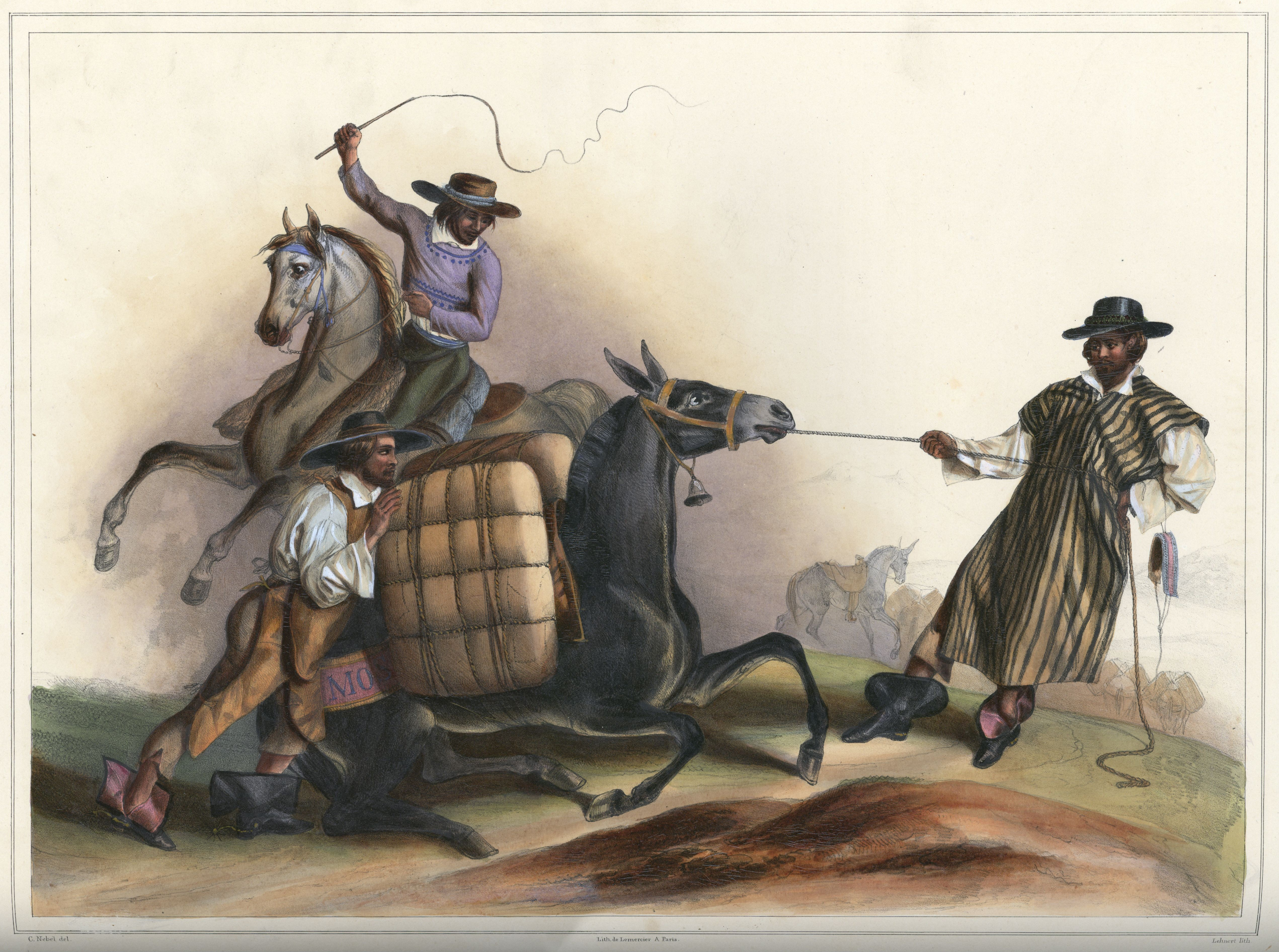 Arrieros, costume group. Hand-colored lithograph highlighted with gum arabic. Original size (neat lines): 42×31 cm.